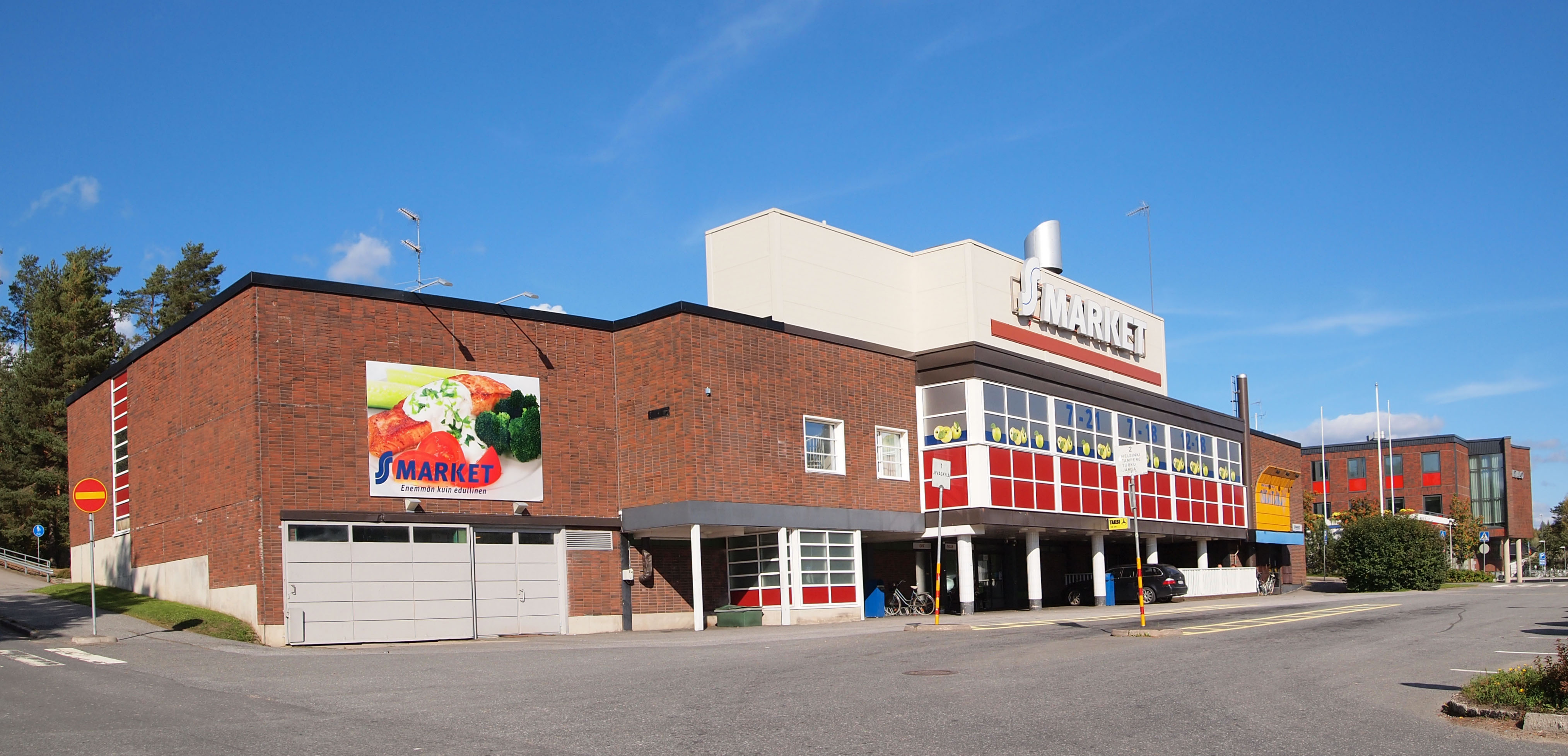 Store S-market in Korpilahti, Jyväskylä.This photograph was taken with an Olympus E-PL1